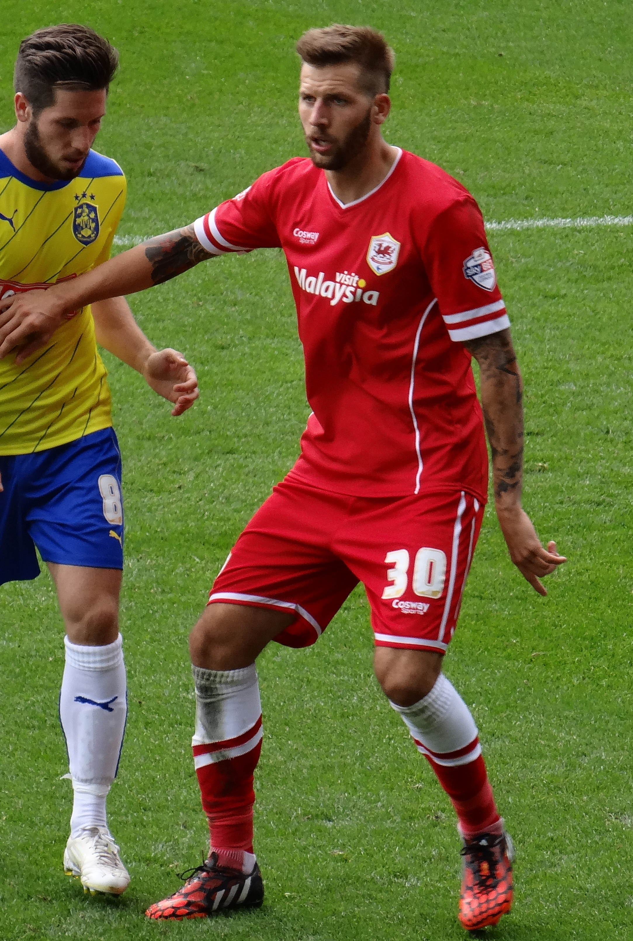 Footballer Guido Burgstaller playing for Cardiff City.